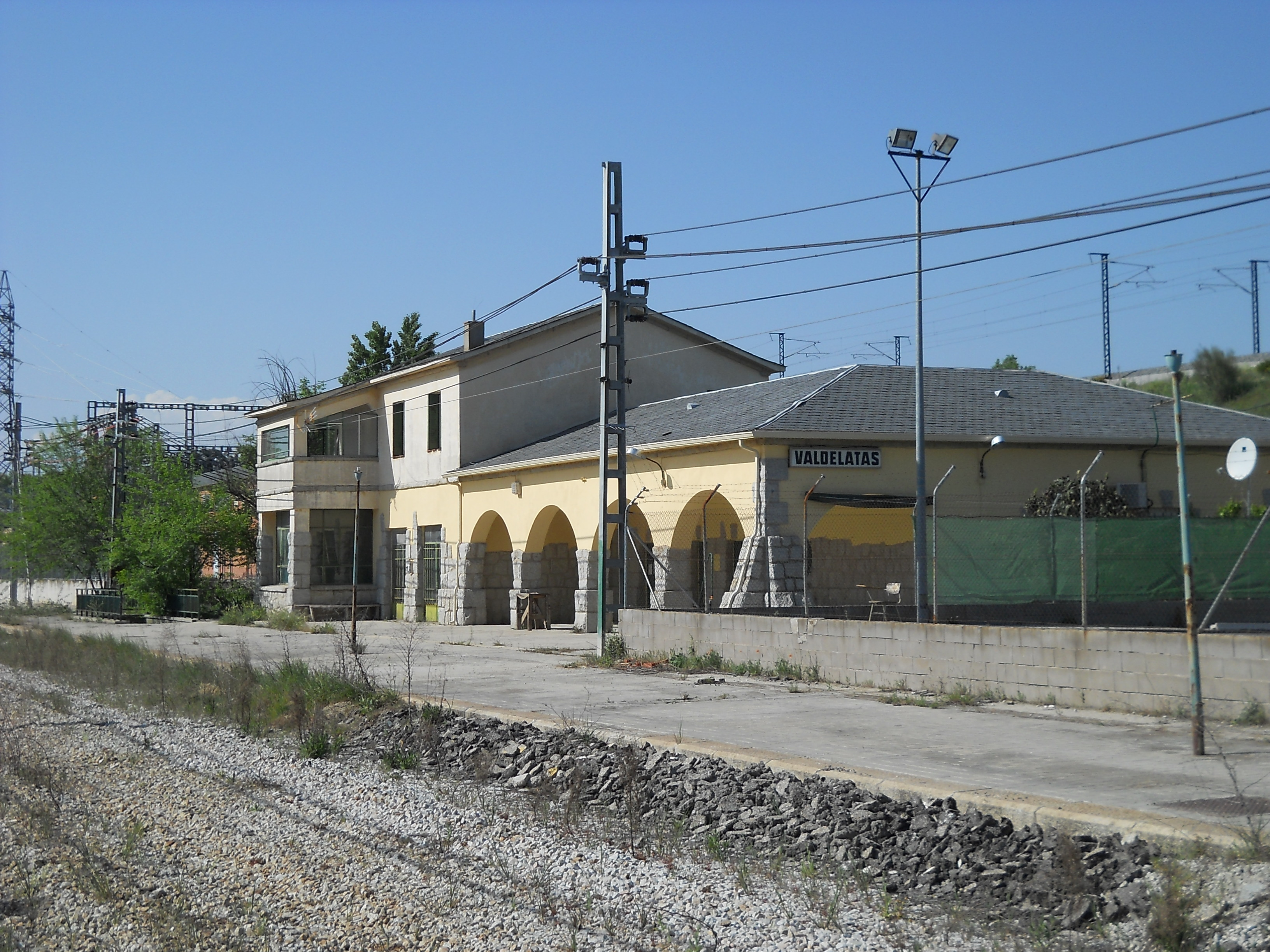 Disused train station of Valdelatas, Madrid, Spain